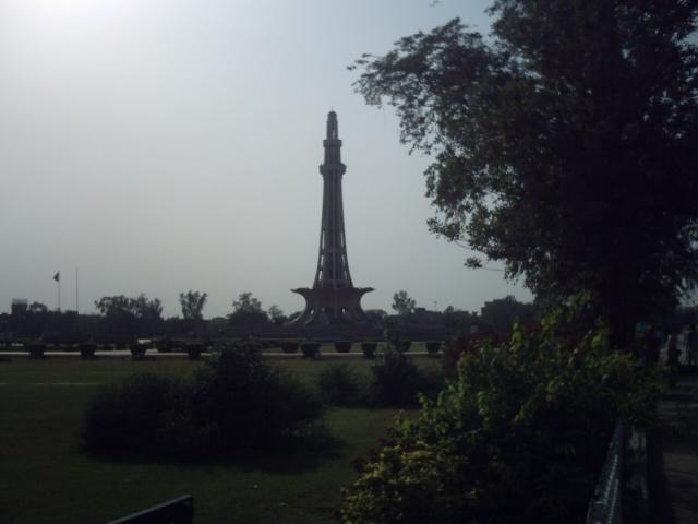 View of Minar-e-Pakistan from Iqbal Park. Picture taken by Pale blue dot on June 10, 2004.